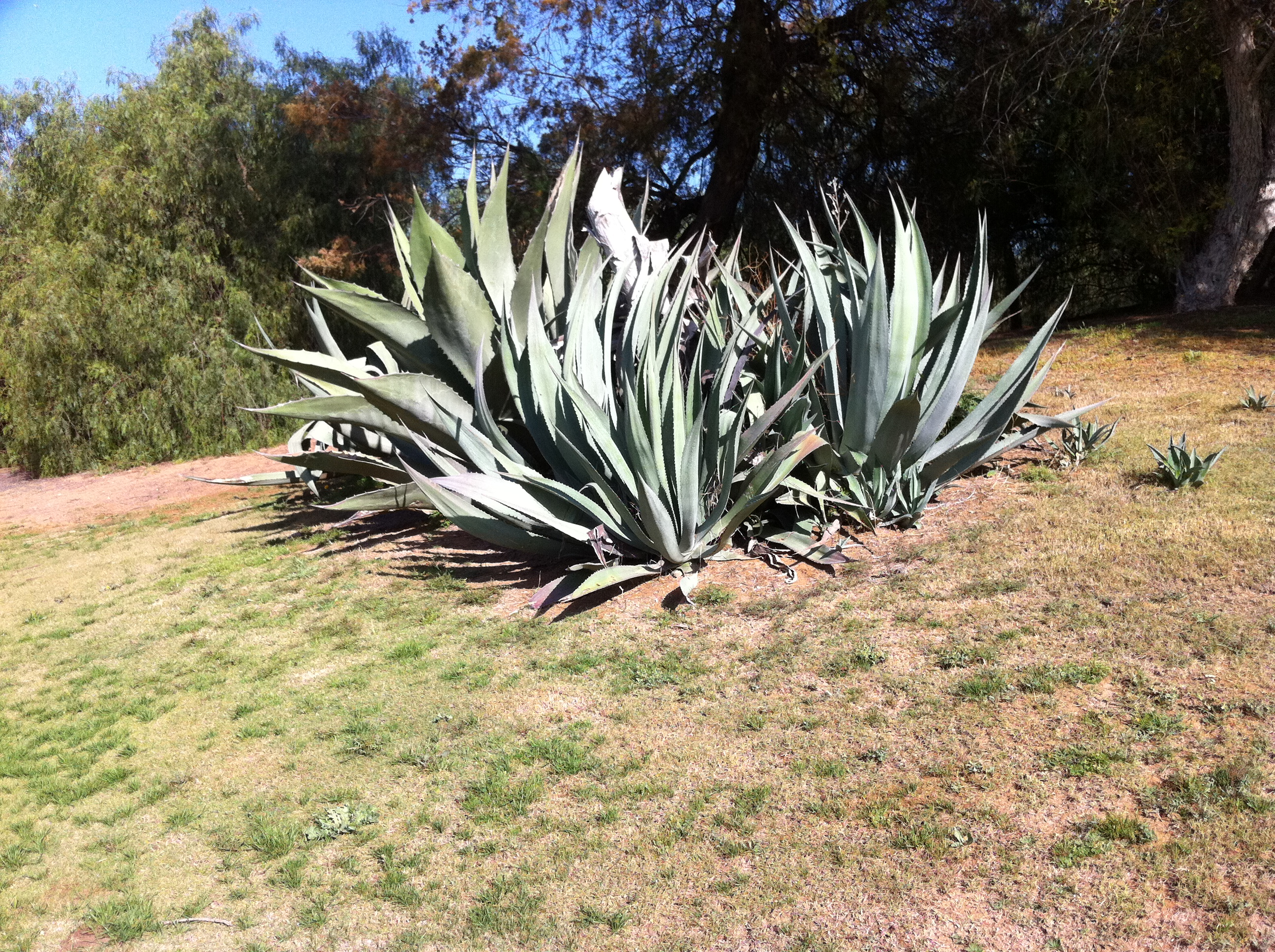 Agave on the golf course Du Soleil in Agadir, Morocco